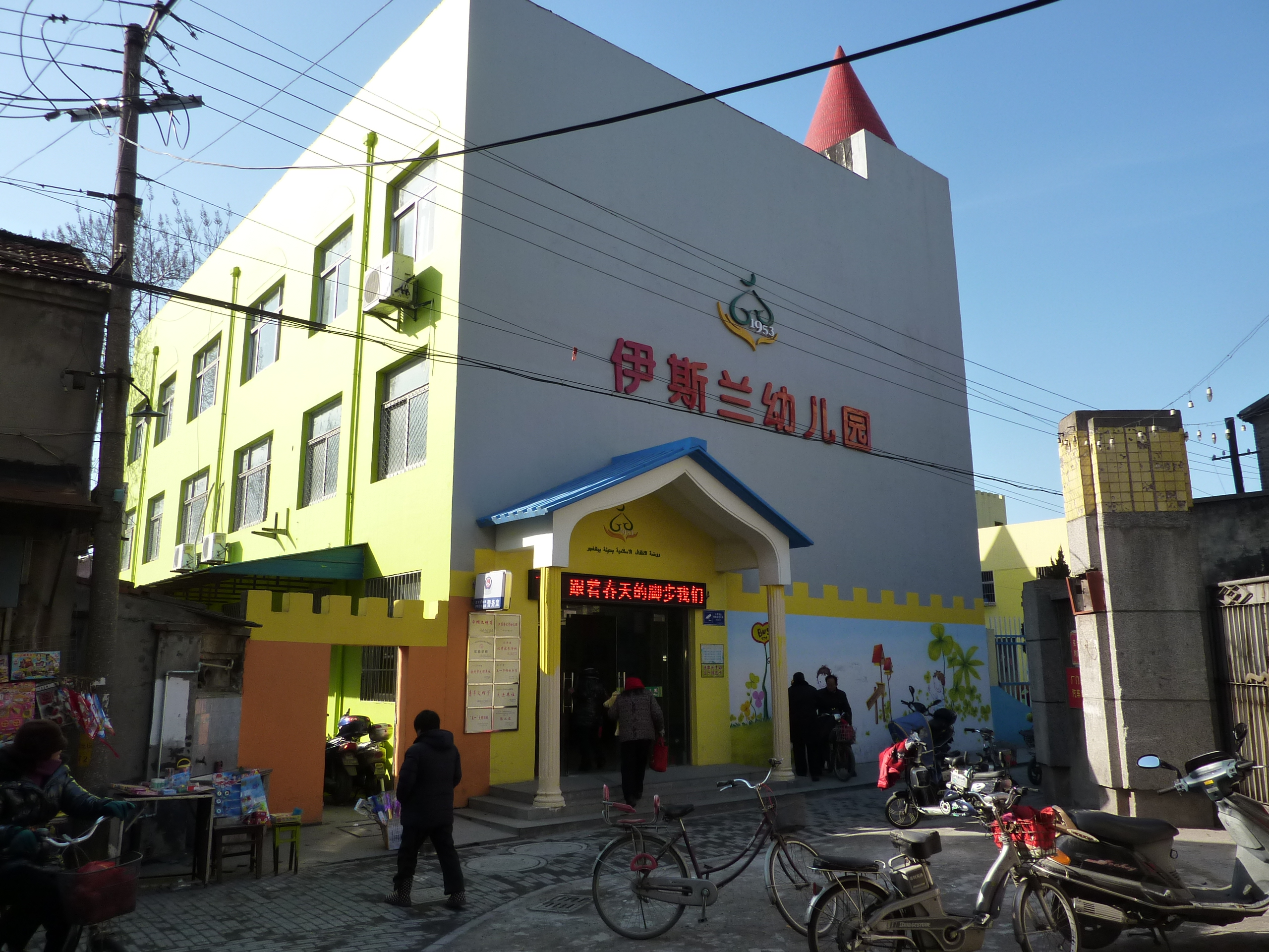 Yangzhou's Islamic kindergarten. (Located in Nanchenggen Xiao San Xiang)